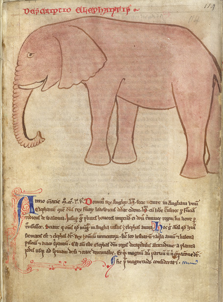 Drawing of an elephant from John of Wallingford's manuscript of miscellaneous items, apparently copied from the well-known drawing by Matthew Paris